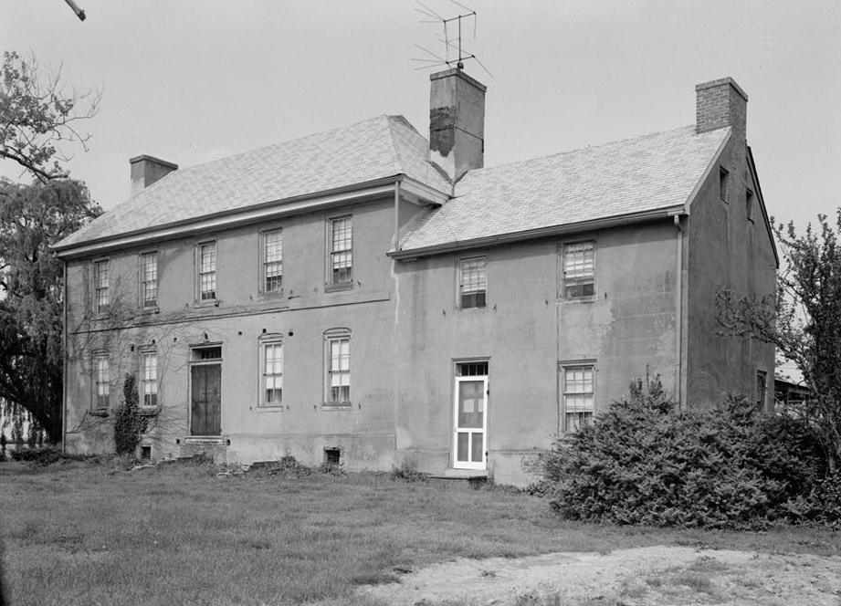 Arnold S. Naudain House, built 1710s, altered 1820s, listed on NRHP April 24, 1973. South of Middletown on Delaware Route 71